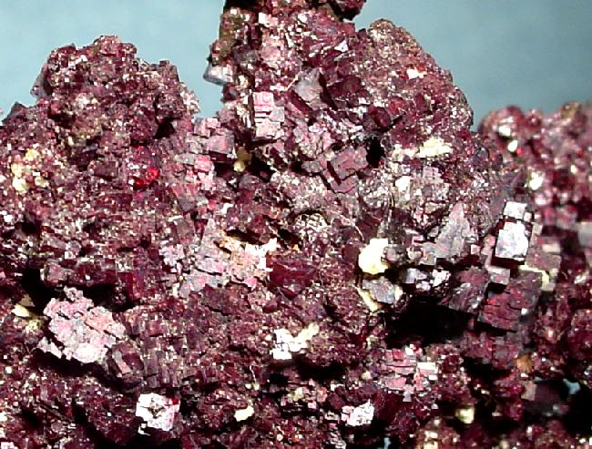 Cuprite Locality: Chino Mine (Santa Rita Pit; Santa Rita Mine), Santa Rita, Santa Rita District, Grant County, New Mexico, USA (Locality at ) Size: 7.4 x 3.8 x 2.0 cm. Scintillating, gemmy to opaque, cherry-red, cubic cuprite crystals comprise this striking, two-sided, crust of solid cuprite crystals from the Chino Mine of New Mexico. There are just a couple of small points of attached crust. This was nearly a floater. Outstanding material from this noted locale, and according to the Minette Collection label, was collected calculated 1954. Old-time, superb quality cuprite with textbook crystals and fine color.